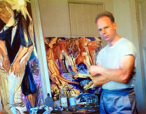 Artist Peter Benjamin Graham in his Studio in Hartwell, Melbourne Victoria